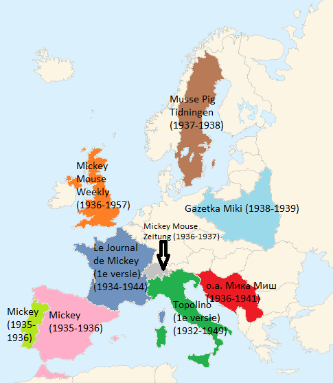 Pre-WWII Disney magazines in Europe